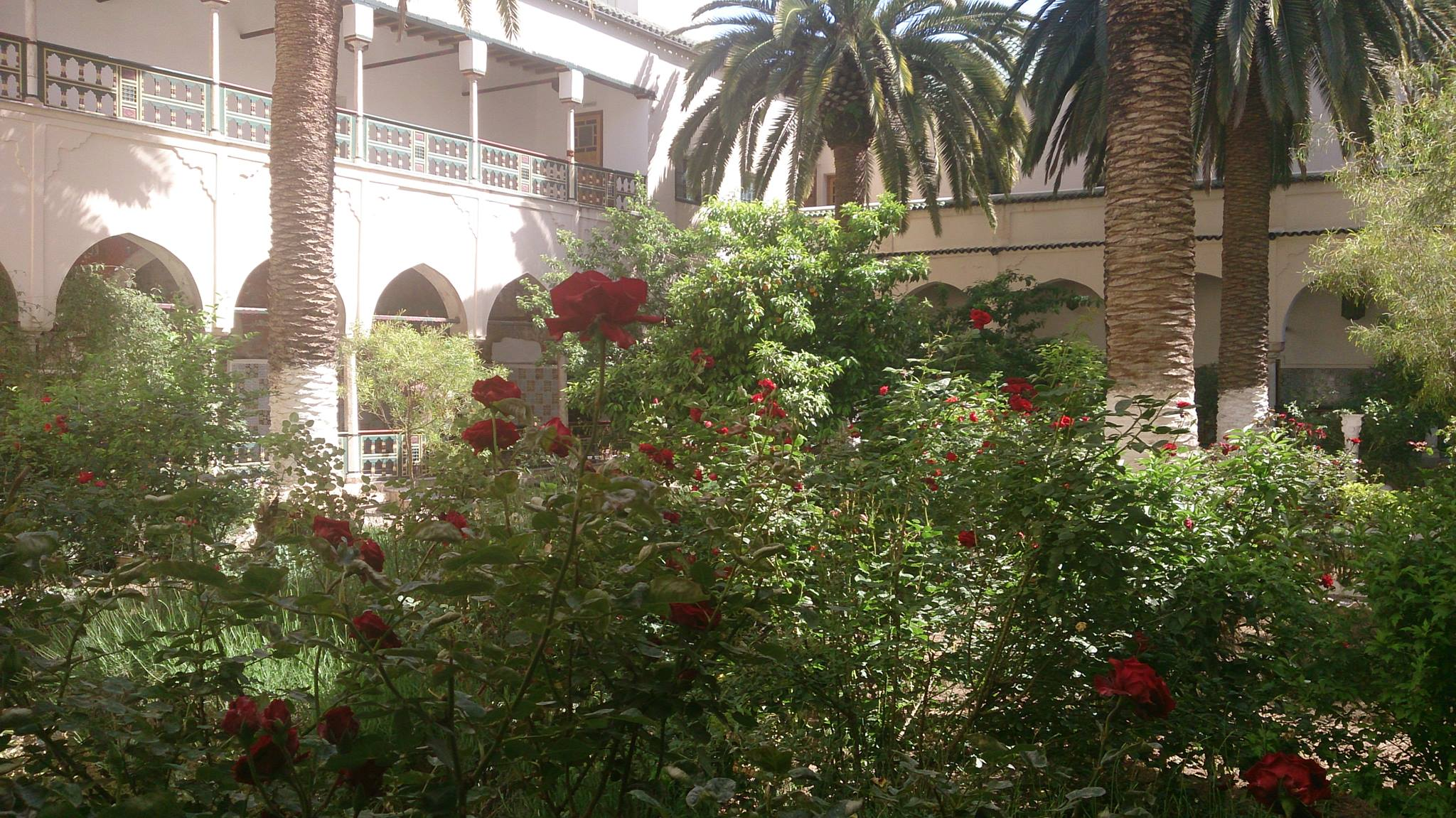 Well, this palace is situated in Constantine. It is devided into three main parts: 1. "Khadamelk" where the maids live. 2. "Haramlek" where the Bey's wives live. 3. "El Diwen" where the Bey works. It contains a large garden in which Napoléon planted a tree. This wonderful palace receives a big number of visitors everyday.